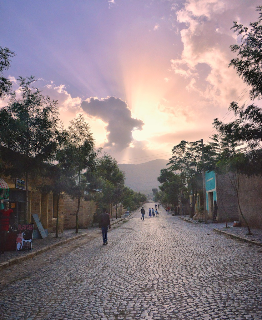 Sun setting on a street in Adigrat. Sun setting on a street in Adigrat.